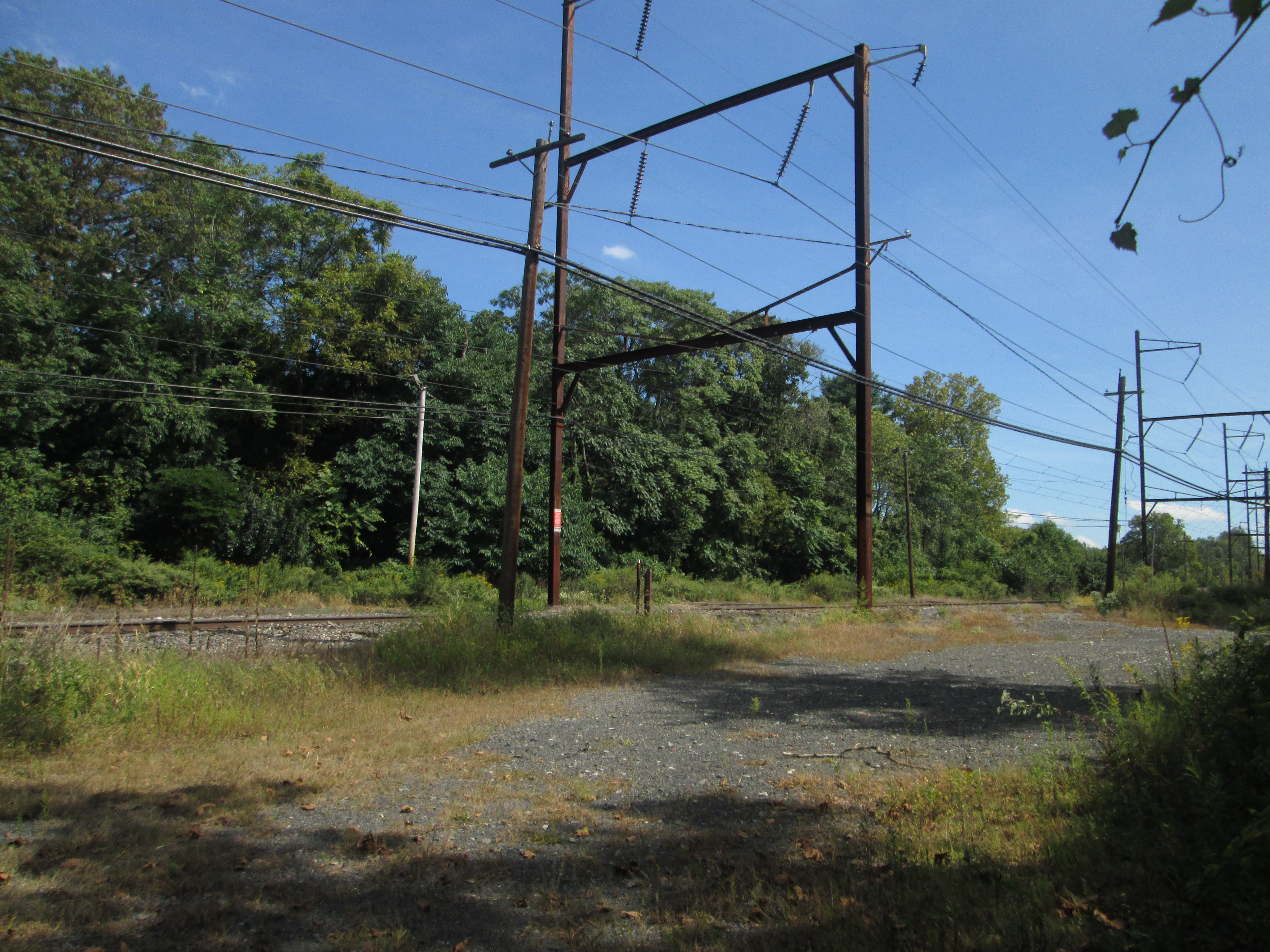 The site of the former Fellwick station, which closed in 1996, along the Lansdale/Doylestown Line in Whitemarsh Township, Pennsylvania